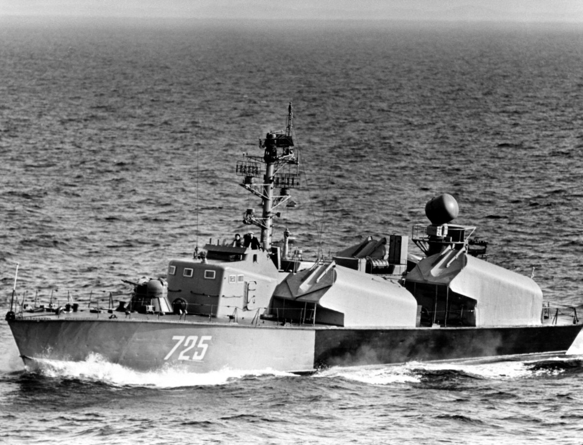 A bow view of a Soviet Osa I Class fast attack craft-missile underway.